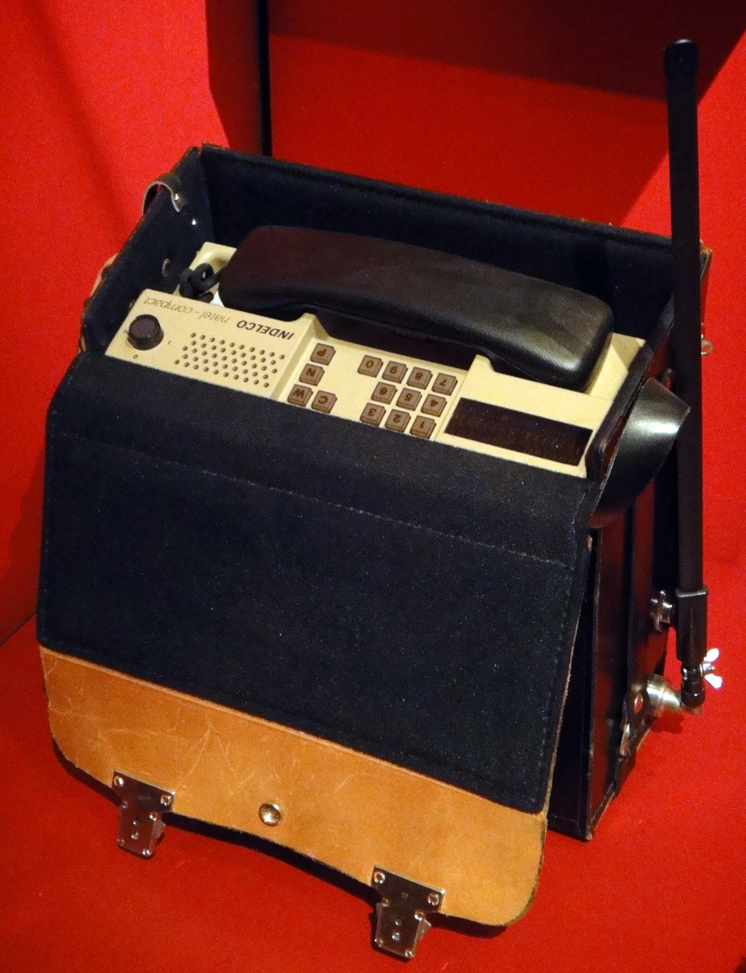 Indelco Compact 801625 "Natel B" mobile telephone, in use in Switzerland until 1995.